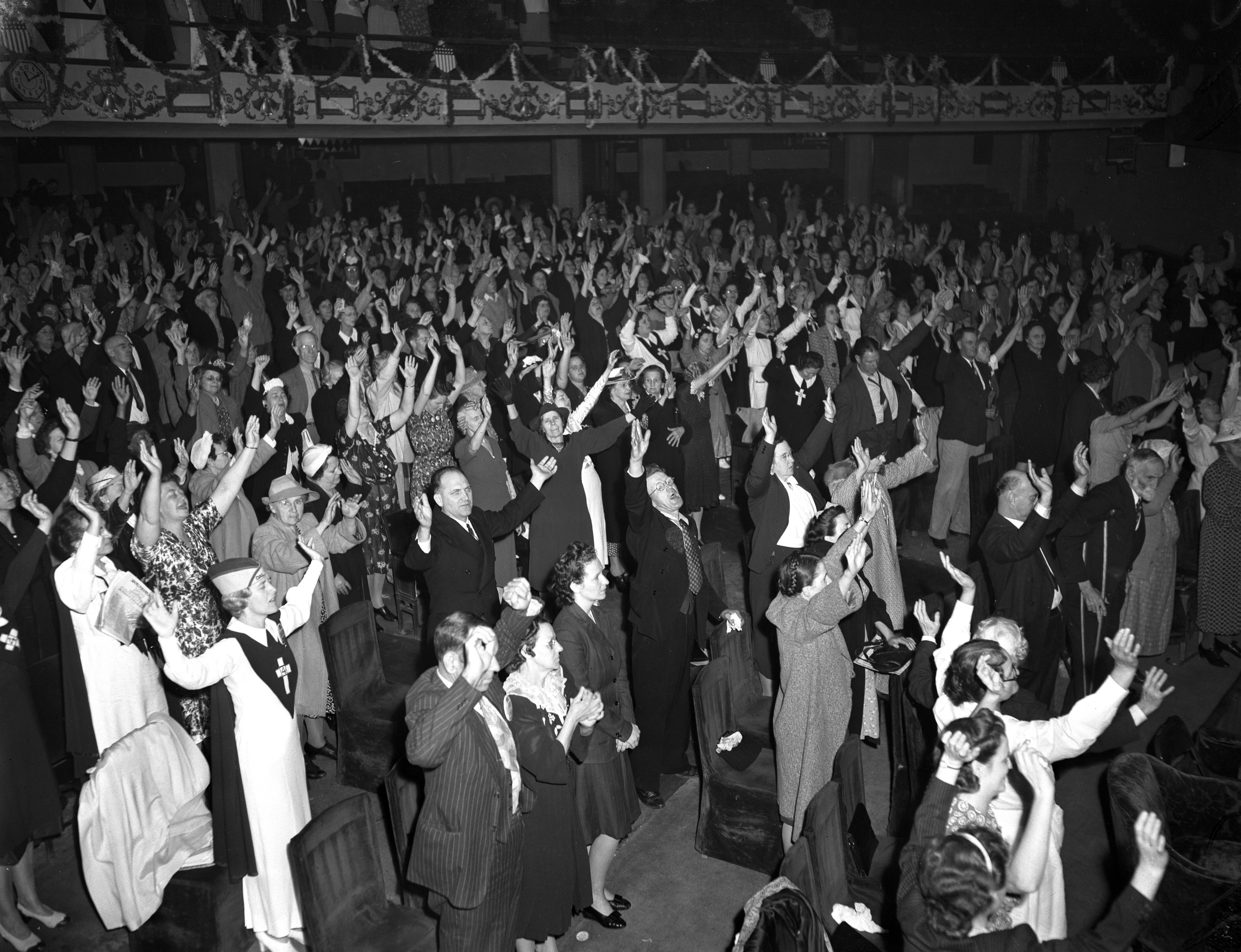 Worship service at Angelus Temple during 14-hour Holy Ghost service led by Aimee Semple McPherson, Los Angeles, Calif., 1942 (main file).